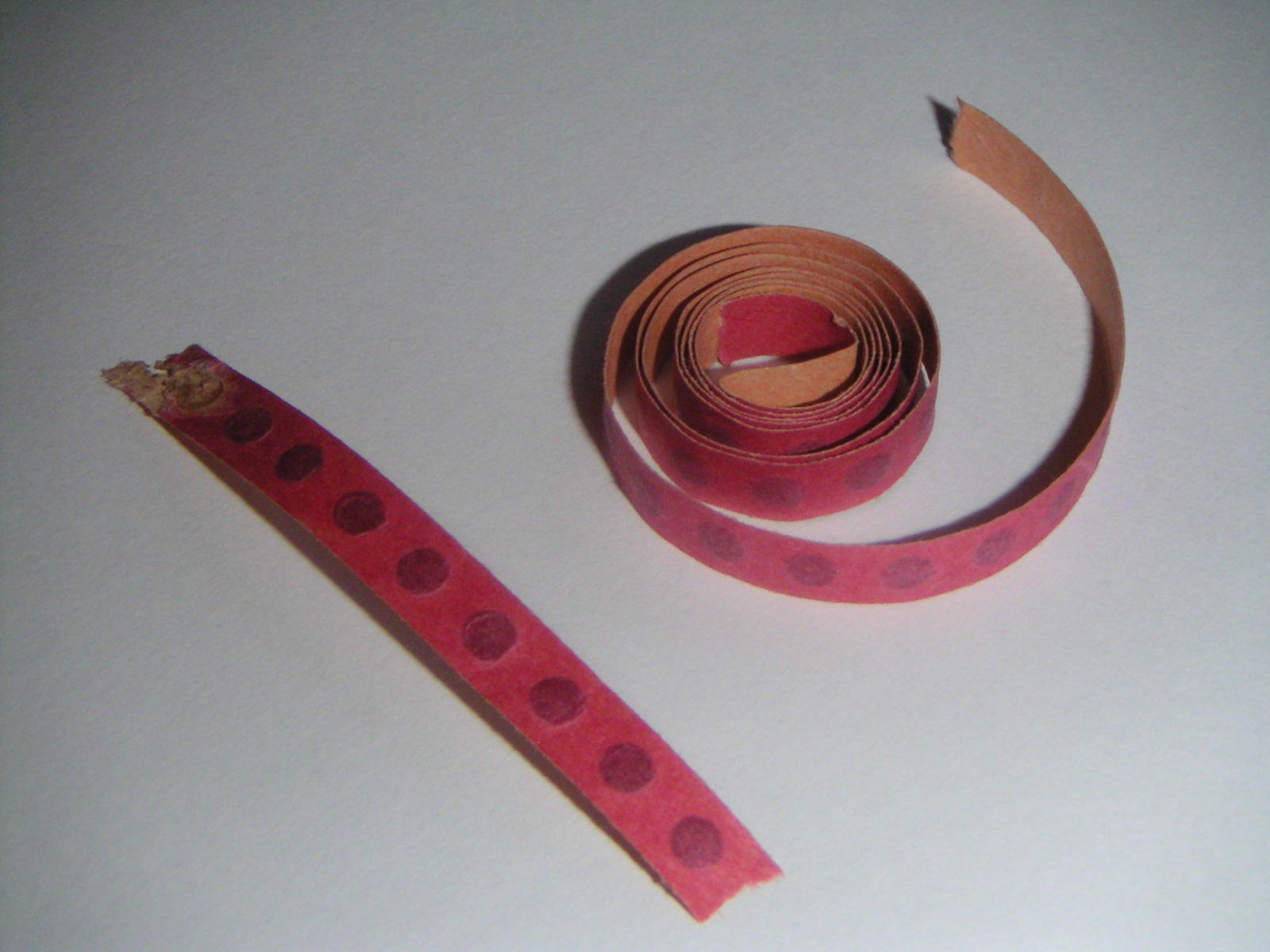 A roll of pink paper ammunition for a cap gun.